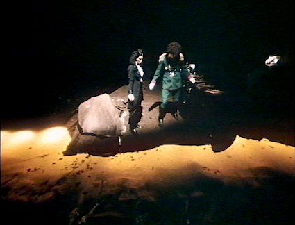 The ground dissolves at the end of the farewell party of Baron Zedlitz